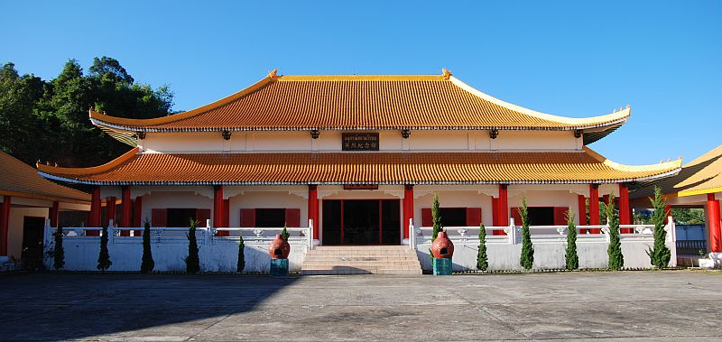 The Martyrs' Memorial Hall of the KMT in Santhikiri, Chiang Rai province, Thailand